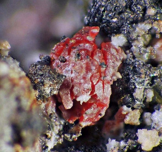 Outstanding red litharge crystals associated to yellow zincite from a German locality (Hüsten, Arnsberg, Sauerland, North Rhine - Westphalia, Germany). Good contrast of red and yellow with the dark contrasting matrix.